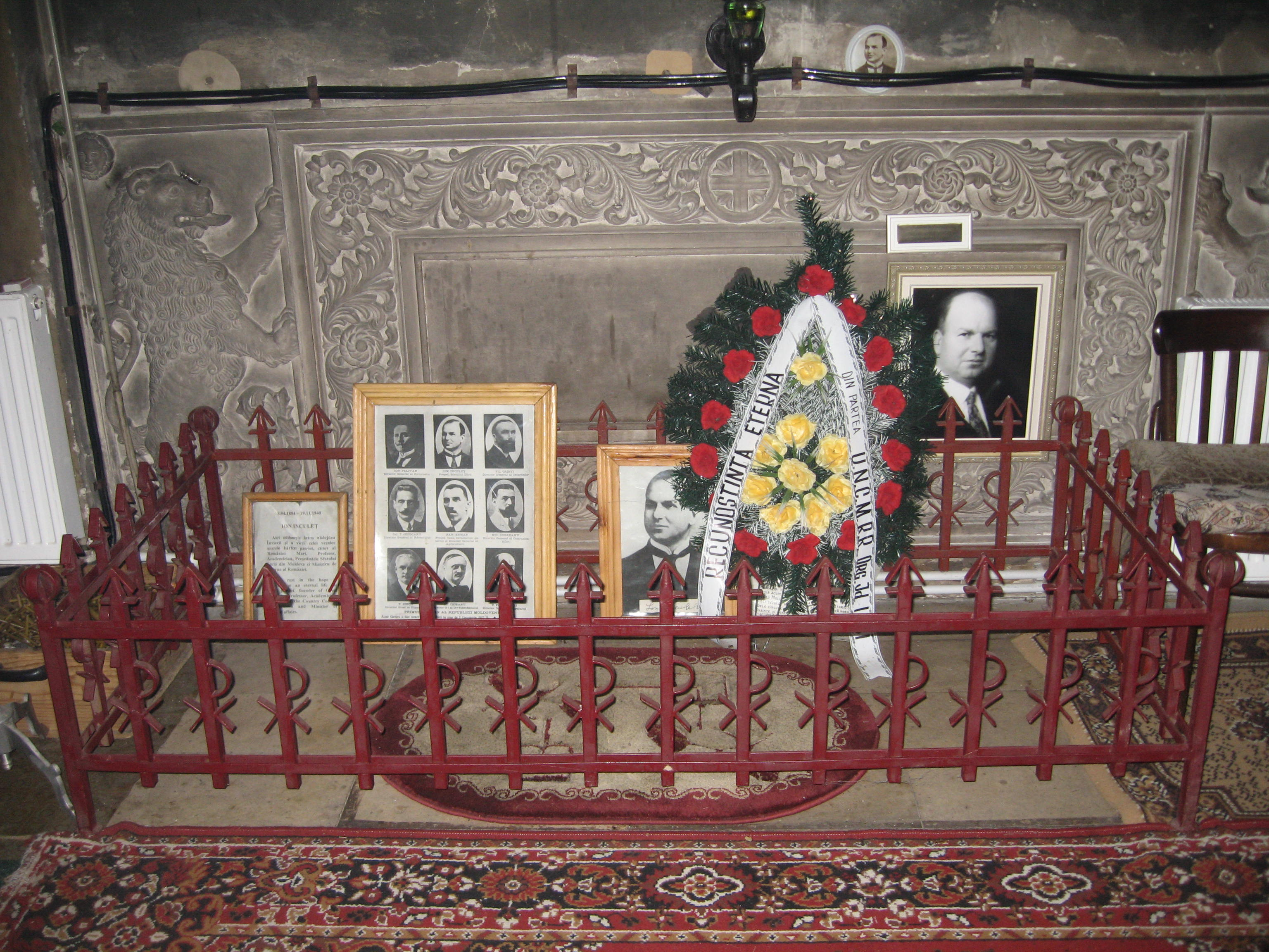 Ion Inculeţ thomb. Biserica Sfântul Ioan Botezătorul din Bârnova